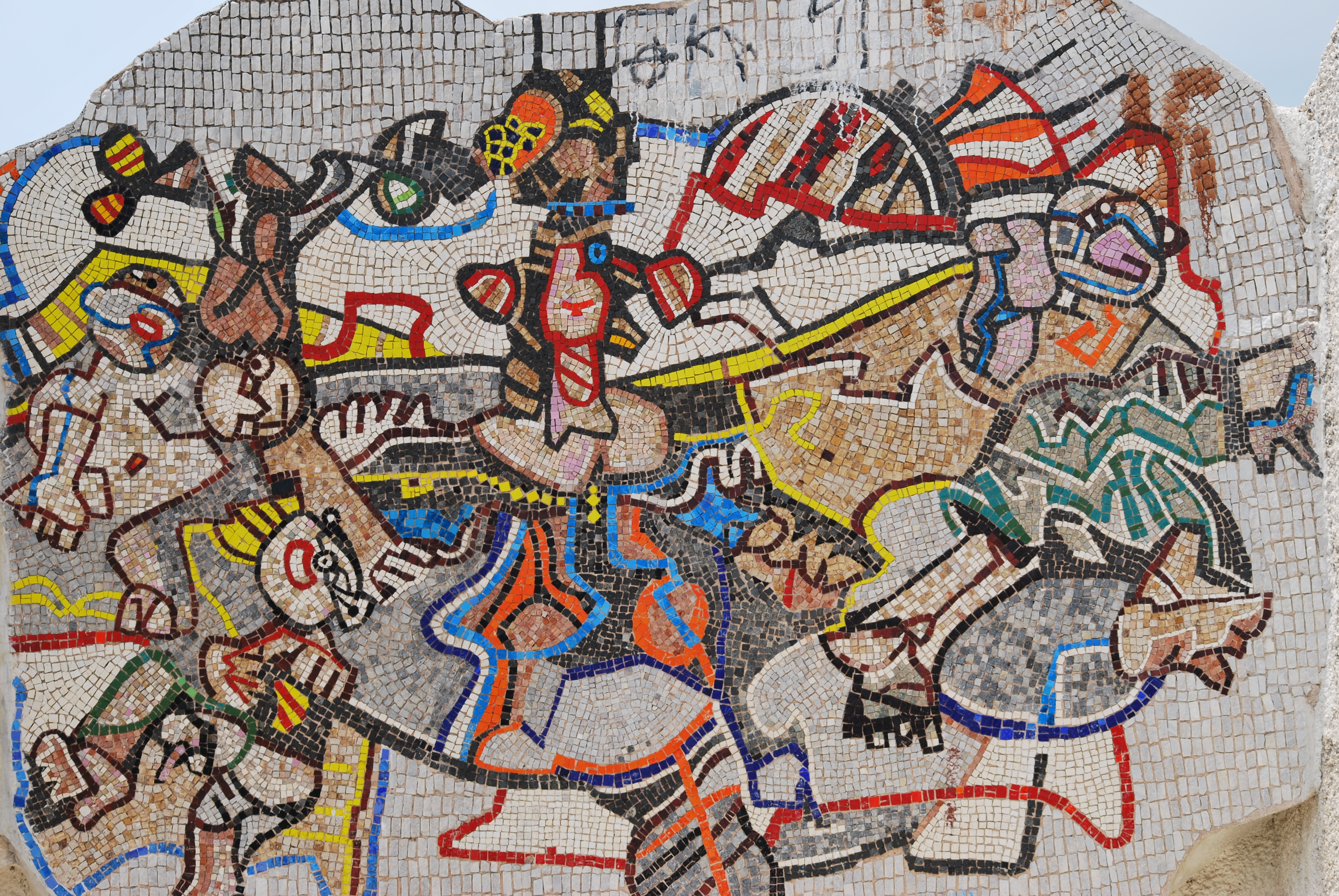 Monument to Freedom in Kočani, Macedonia